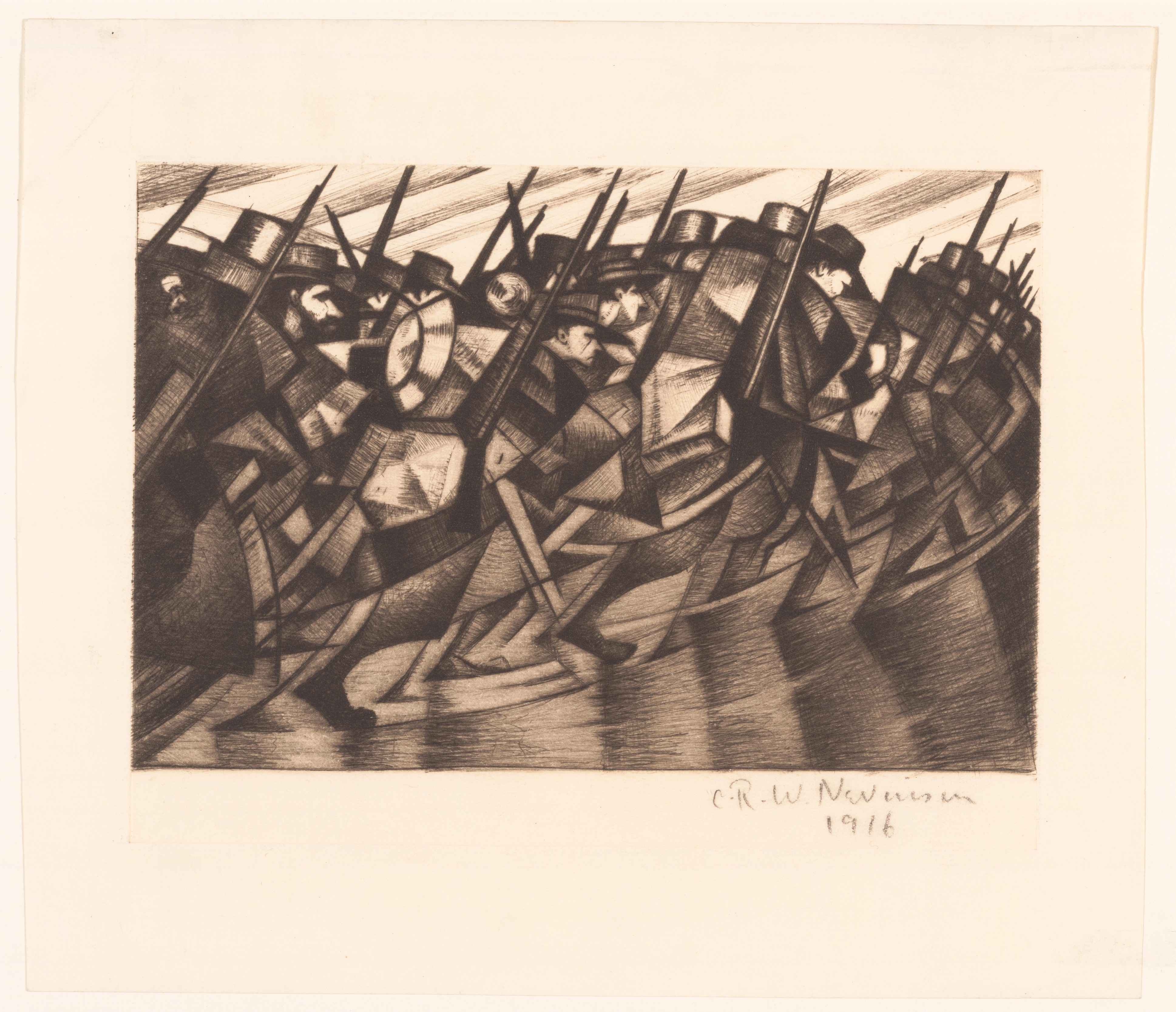 Print; Prints